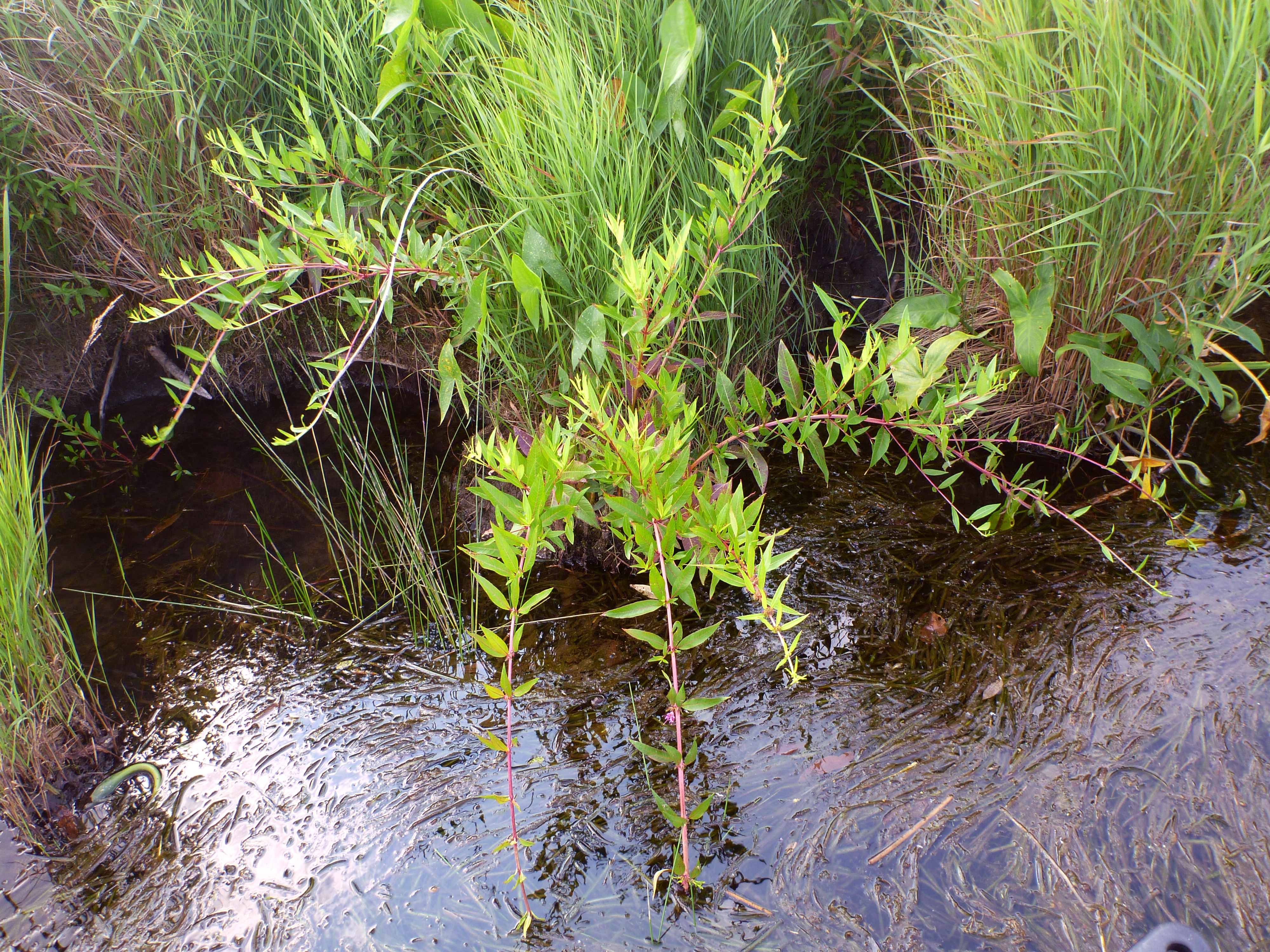 Decodon verticillatus in typical habitat, taken in Oswego County, New York